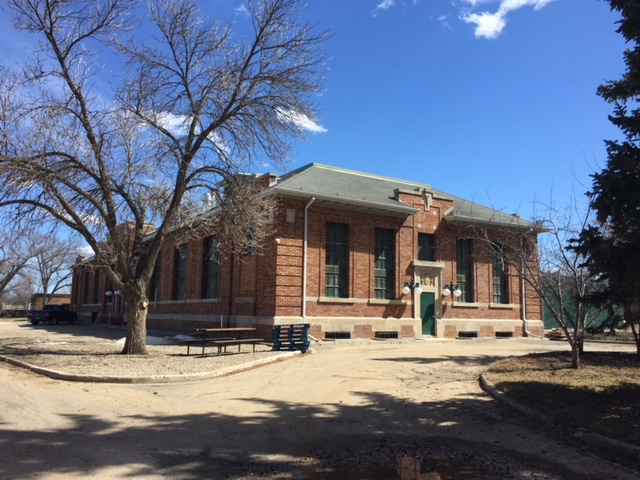 Wascana Powerhouse, Regina, Saskatchewan